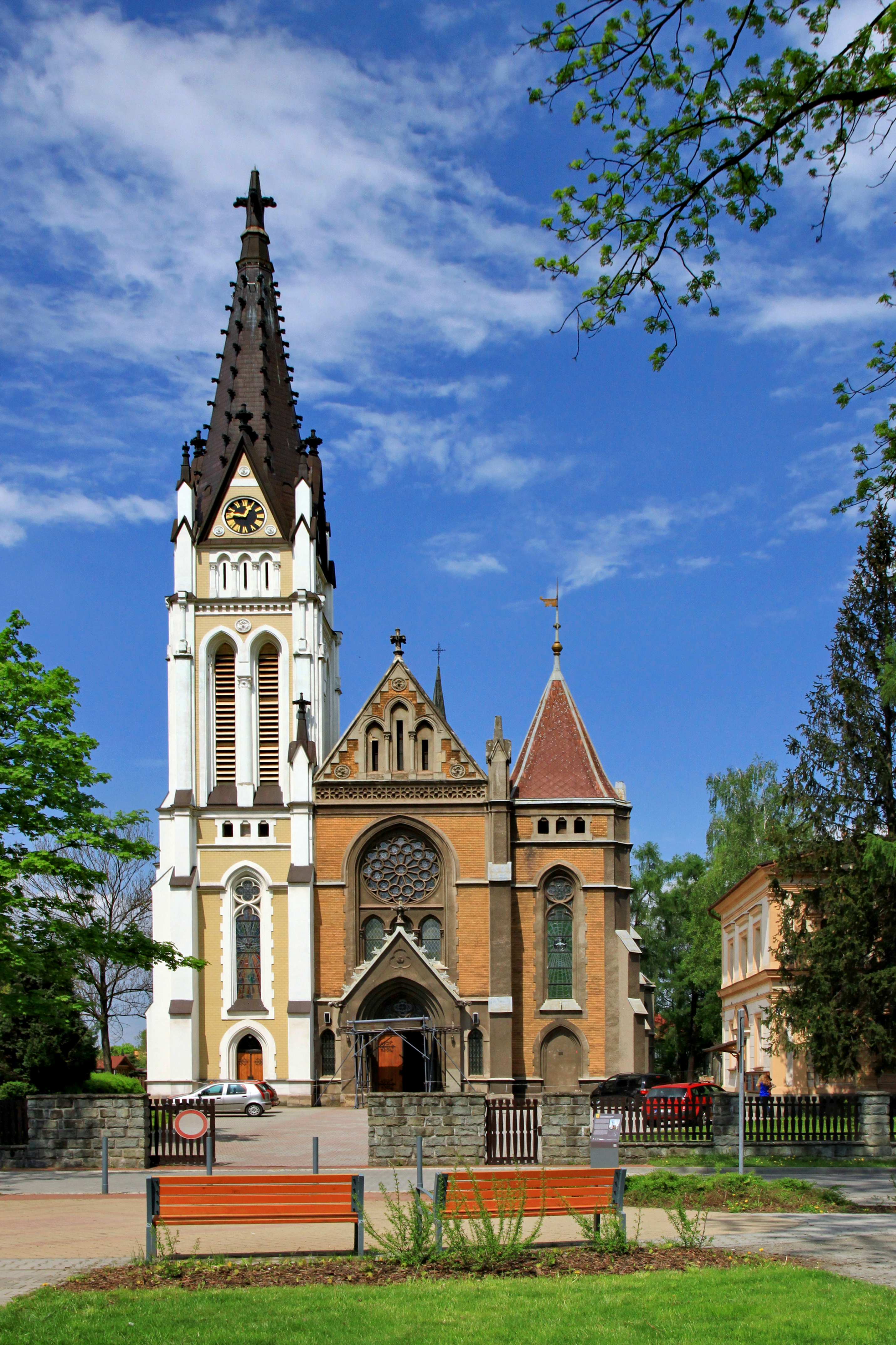 The Parish Church of the Sacred Heart of Jesus, Český Těšín, Masaryk Park